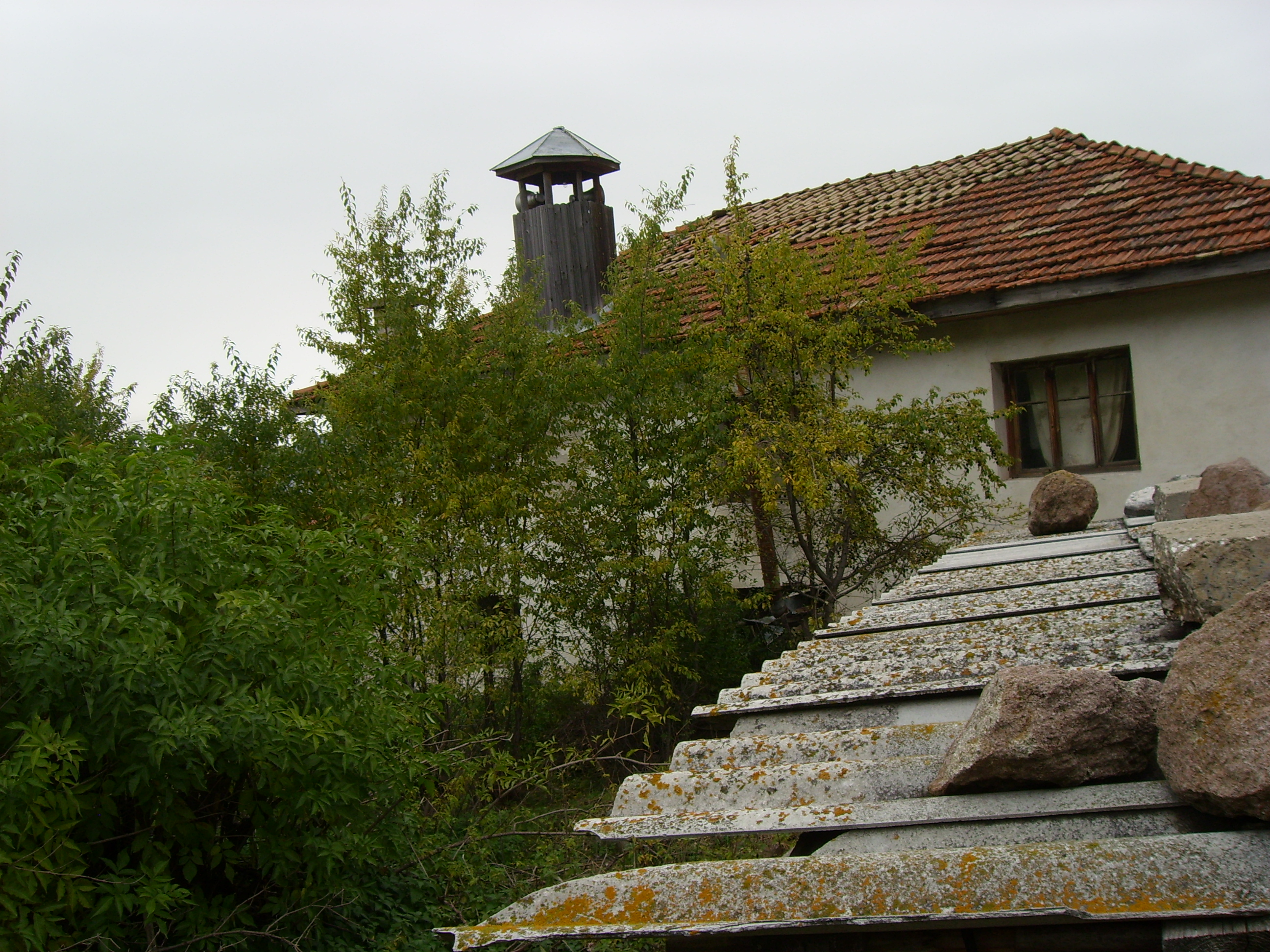 The mosque in the village of Selcha.